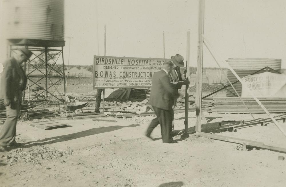 Governor Sir John Lavarack at the start of the construction of the Birdsville Hospital